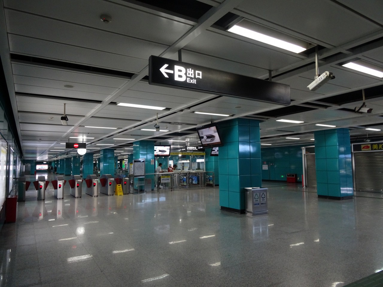 南洲站2號綫個邊嘅站廳